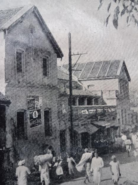 town hall